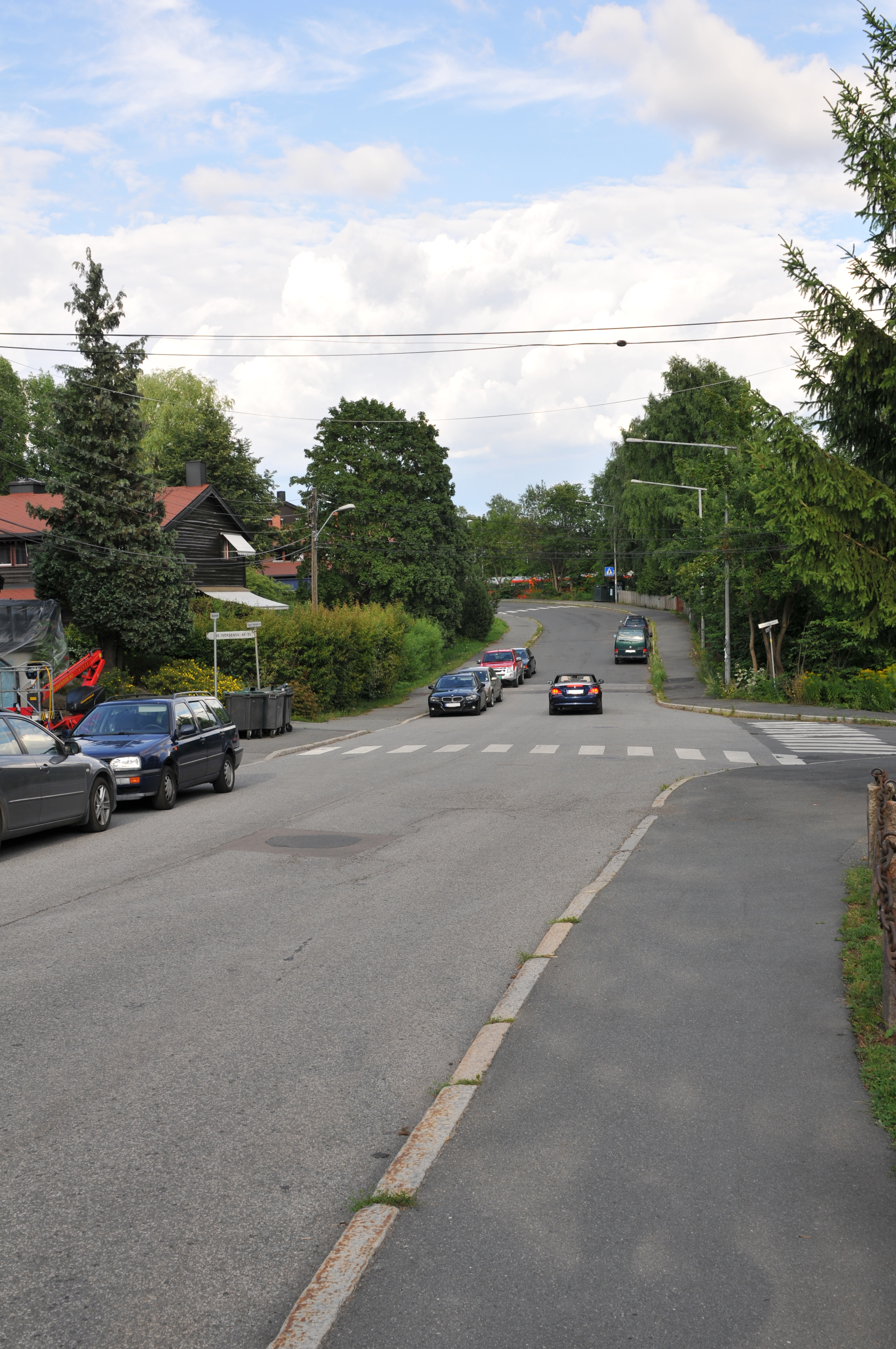 Sigurd Iversens vei intersection Bestumveien